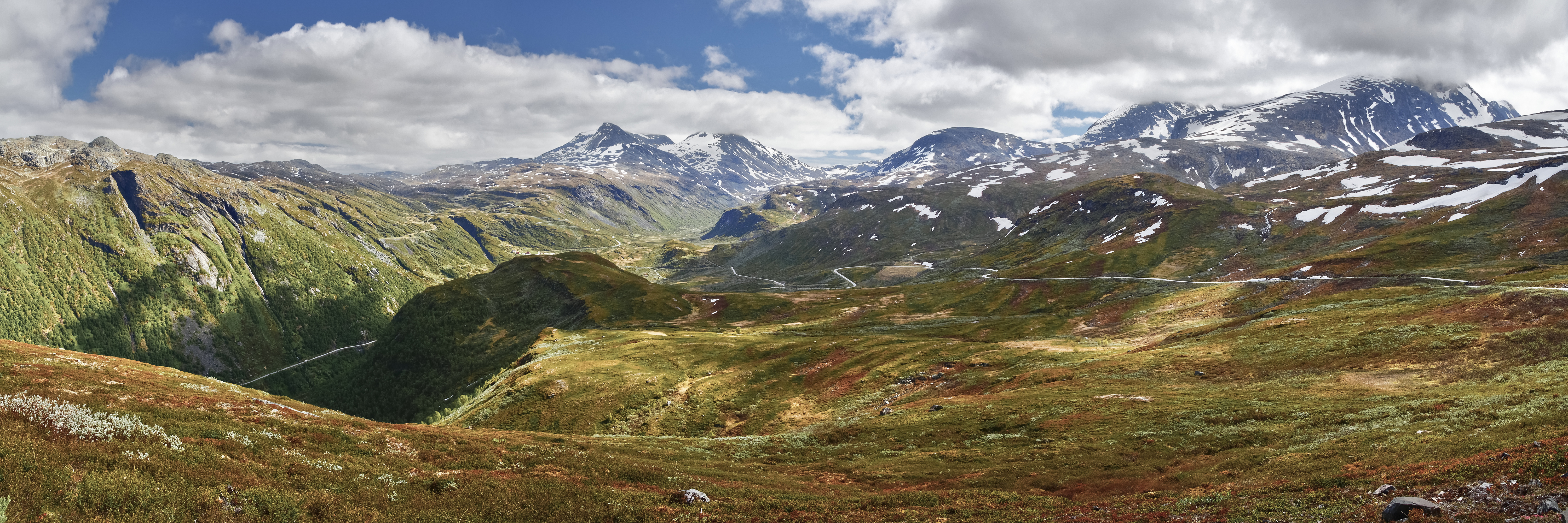 A view to Bergsdalen and Helgedalen from the hillside facing towards north in Luster municipality, Sogn og Fjordane, Norway in 2013 June. It is the same side of the valley as the Hurrungane mountains.